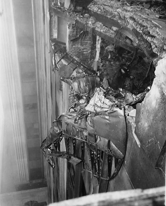 Photo of a B-25 bomber that crashed into the Empire States Building at the 78th floor in 1945.